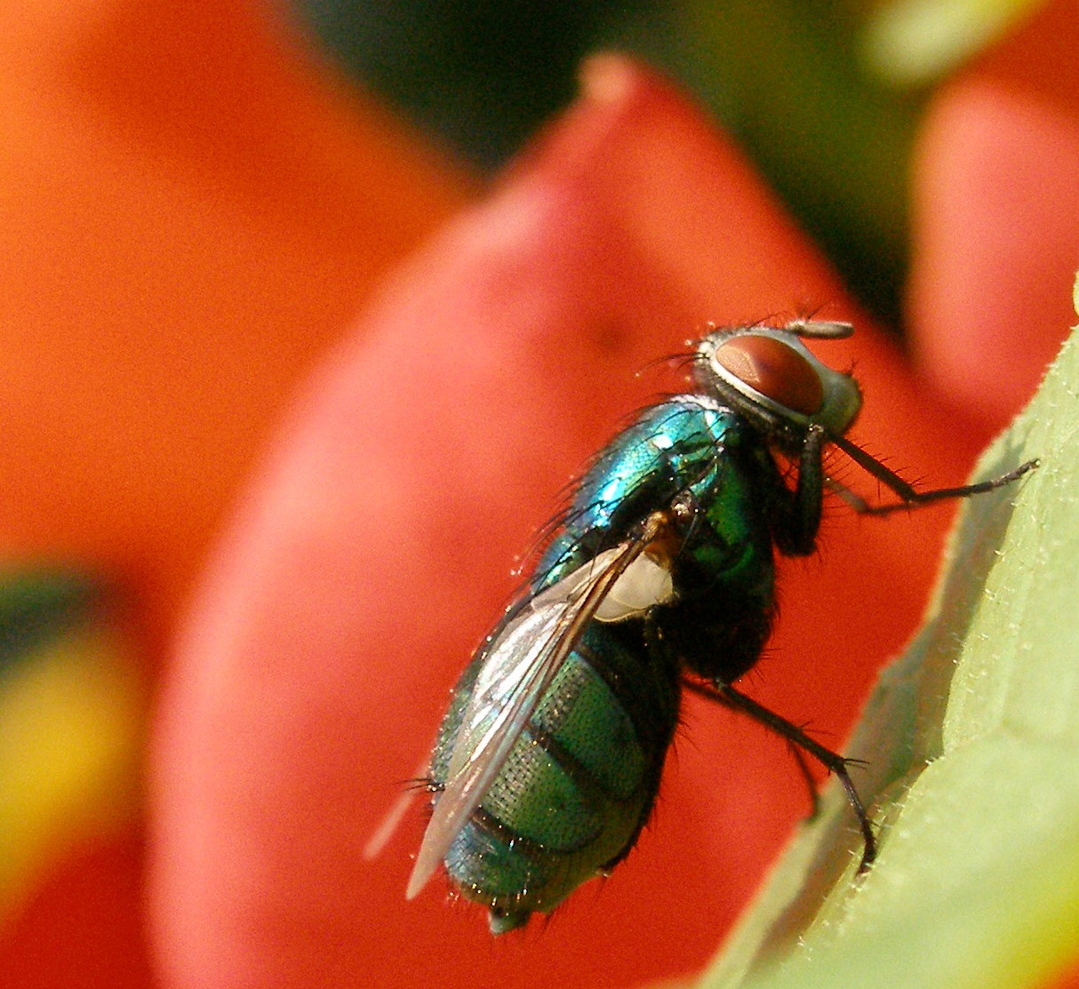 Phaenicia sericata or green bottle fly